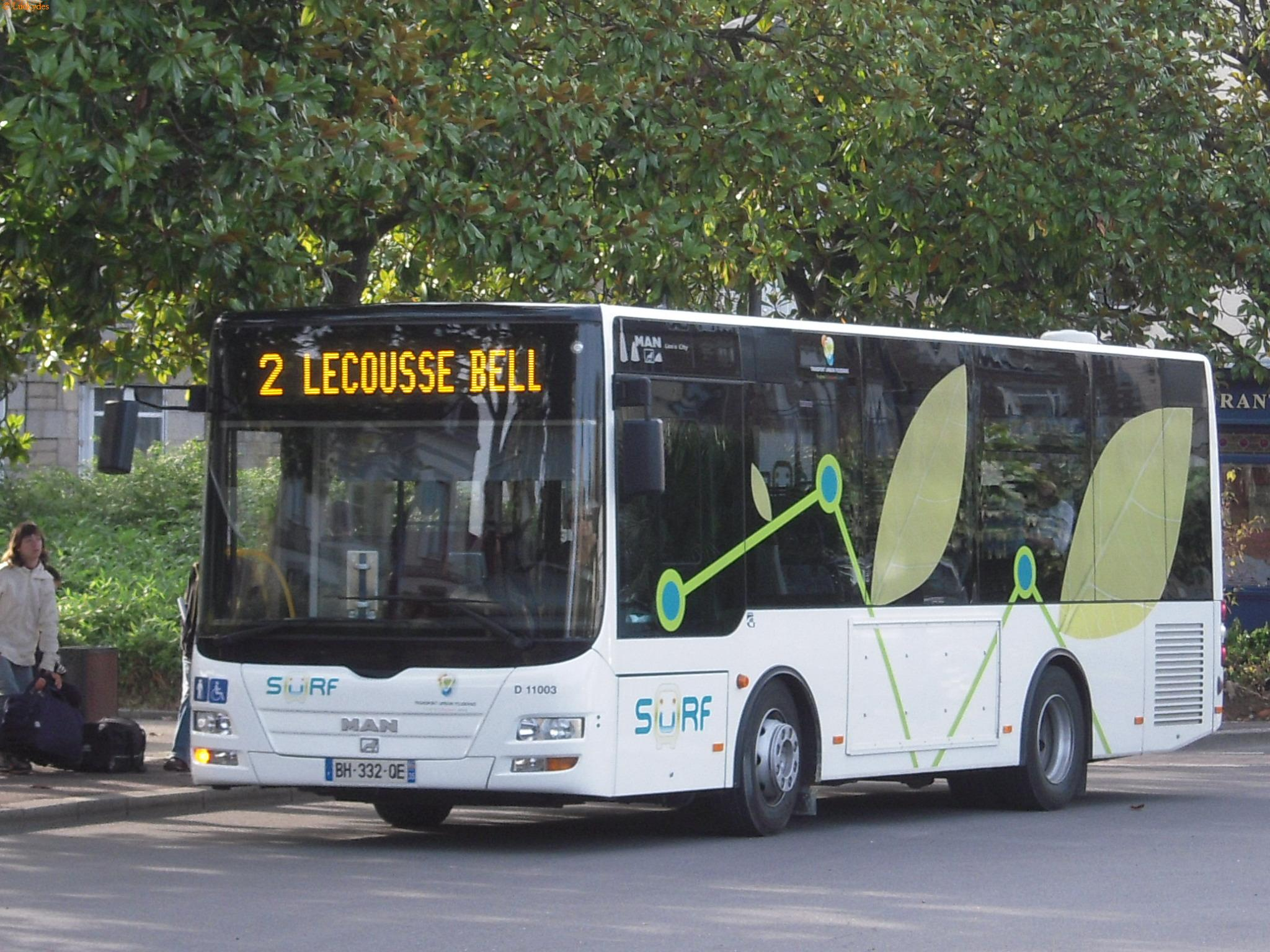 MAN Lion's City M bus (#D 11003, reg. BH 332 OE or BH-332-QE) in Fougères, France. Built by Göppel. SURF operator.